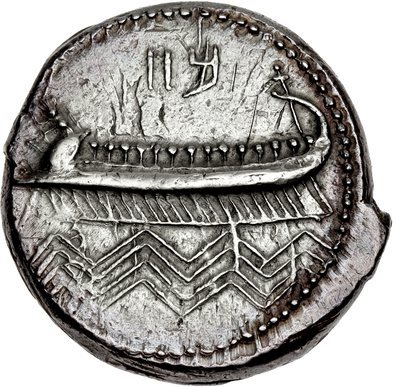 PHOENICIA, Sidon. Mazday (Mazaios). Circa 353-333 BC